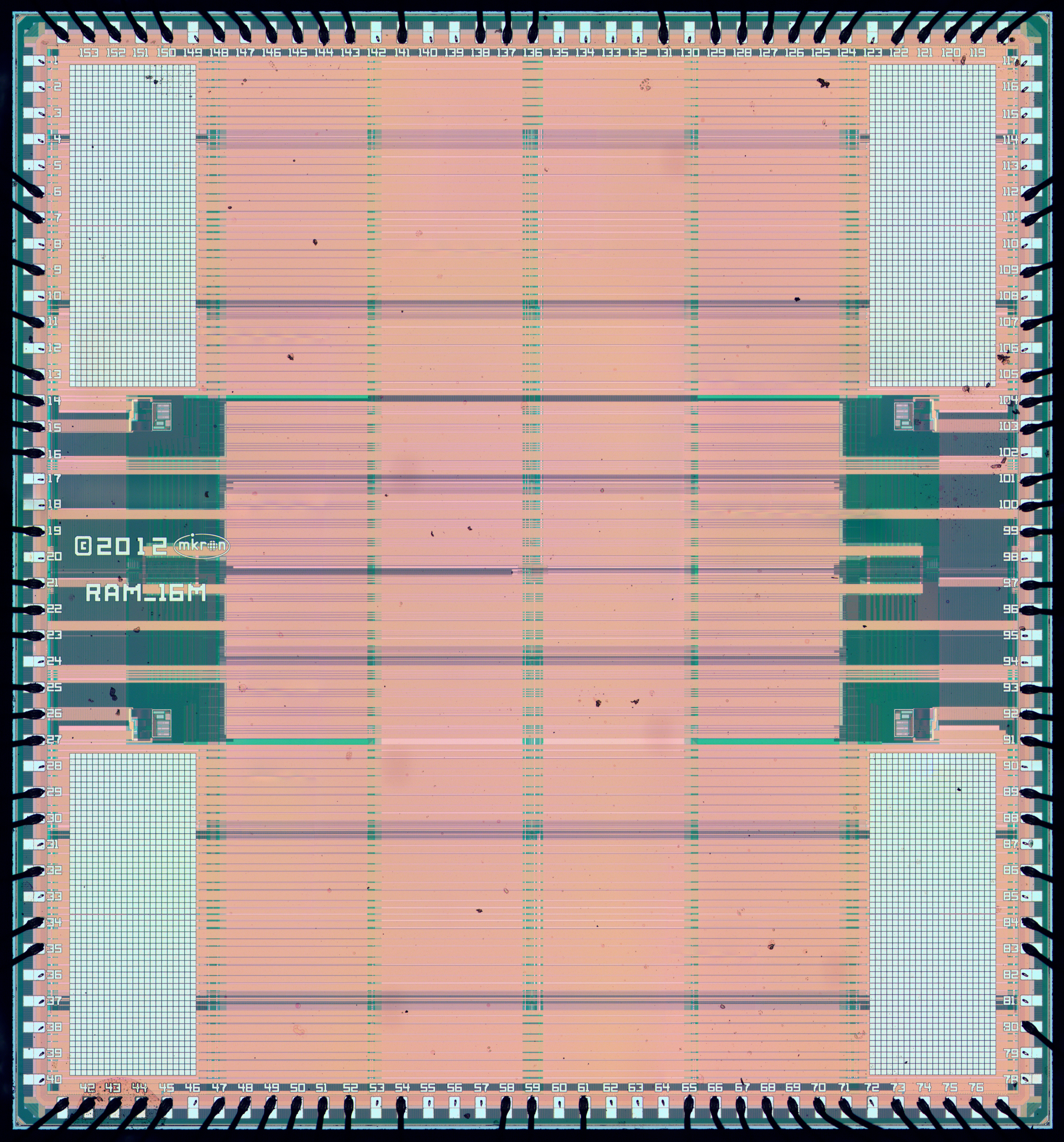 Mikron 1663RU1 16Mbit SRAM chip. 90nm technology. Die size 5973x6418µm.